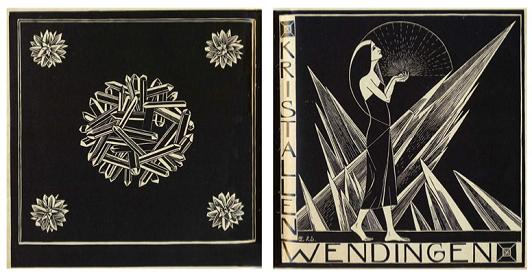 Front and back cover of Dutch art magazine Wendingen (Nov./Dec. 1924), by Bernard Essers